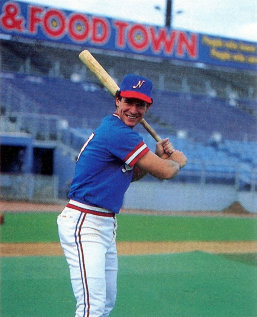 Third baseman Mike Pagliarulo of the 1983 Nashville Sounds Minor League Baseball team of the Southern League